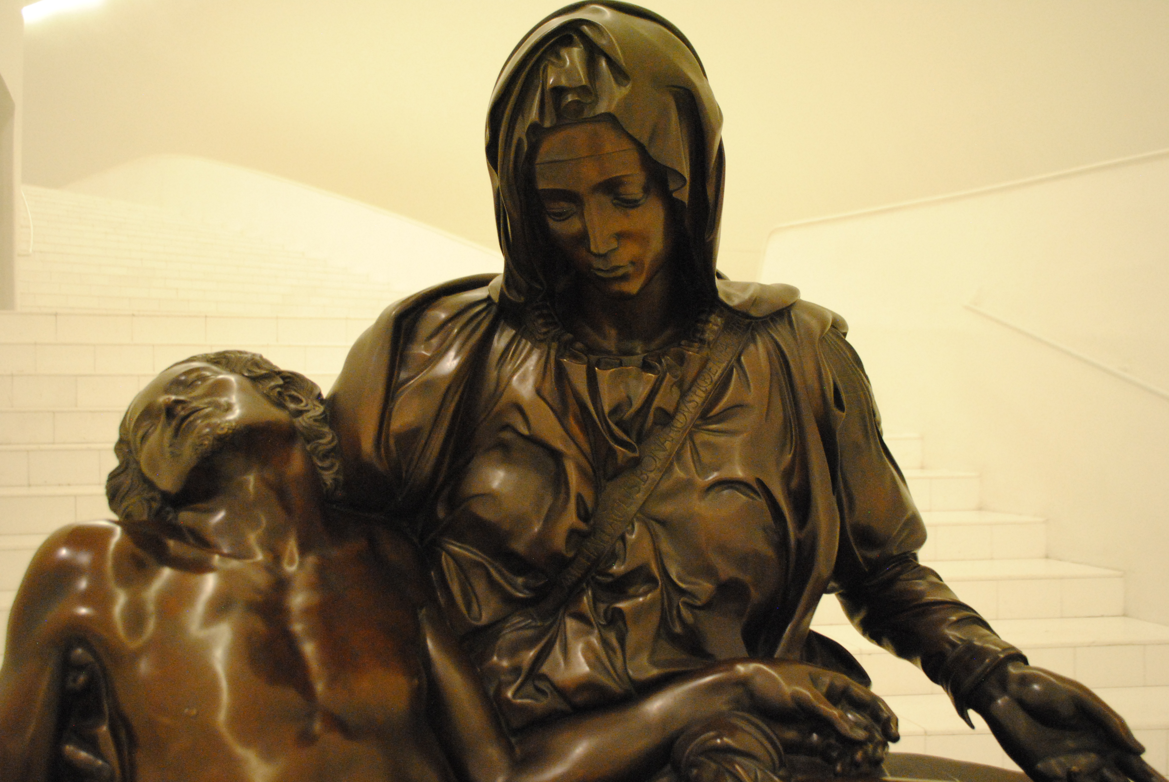 Michelangelo's Pietà in a bronze casting by Ferdinando Marinelli, 1932, certified by the Foundation Buonarotti